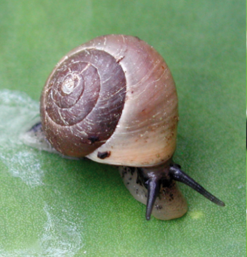 Photo of Helicina platychila.